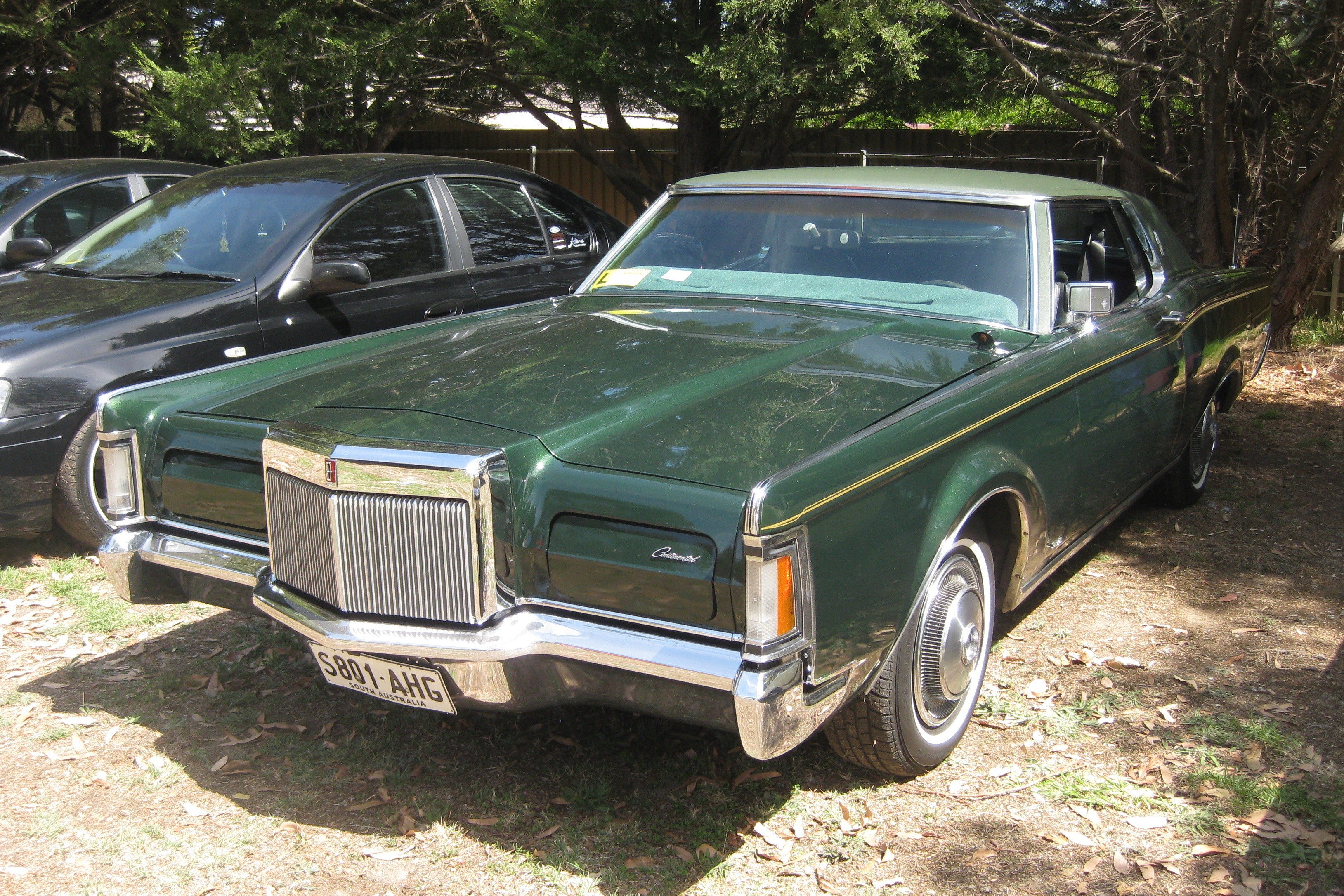 Lincoln Continental Mark III. As hidden windscreen wipers were introduced for 1970 and high-back front seats were standard equipement for 1971, this would appear to be a 1970 model.